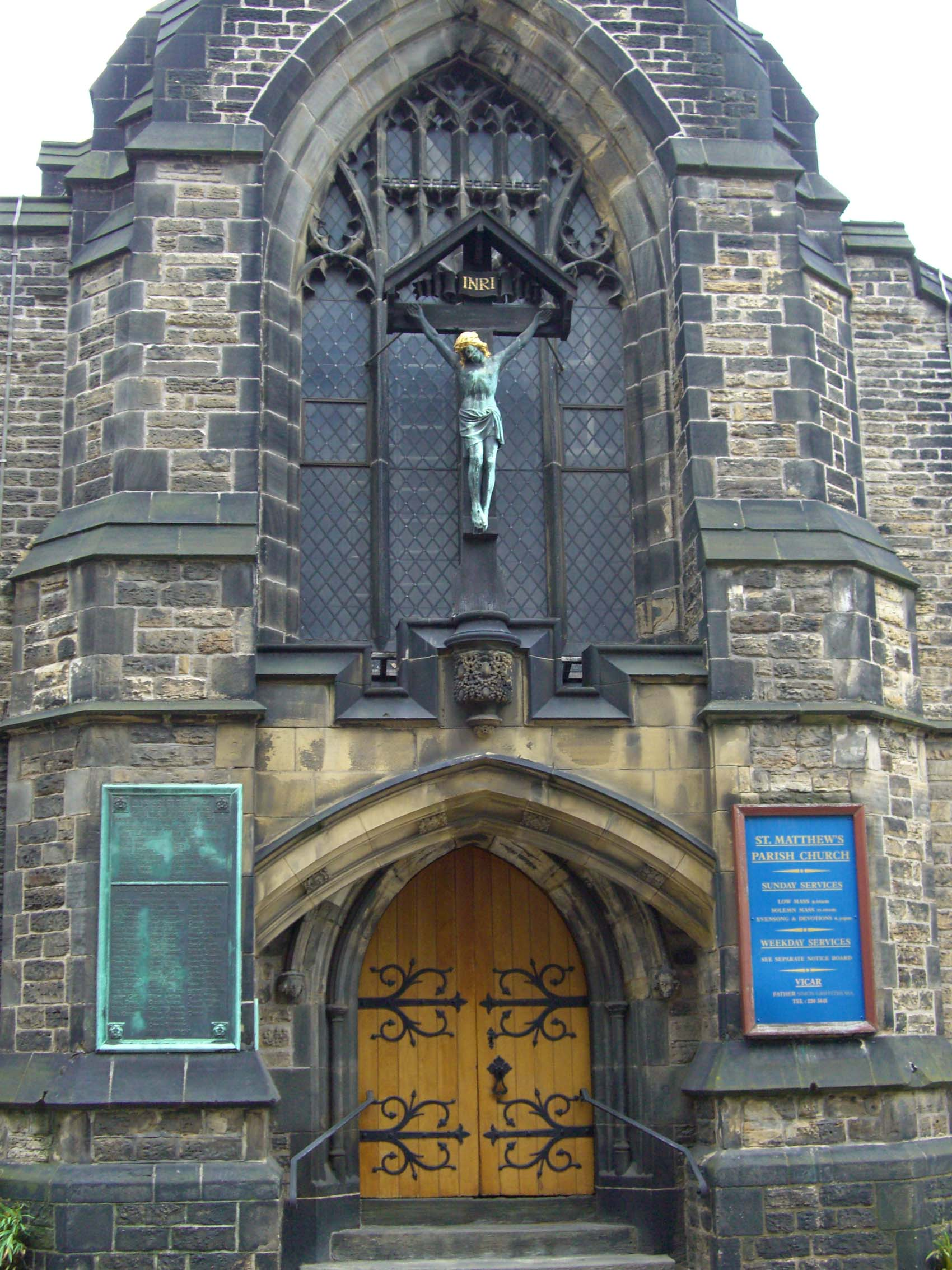 West front of St Matthew's parish church, Carver Street, Sheffield, West Yorkshire